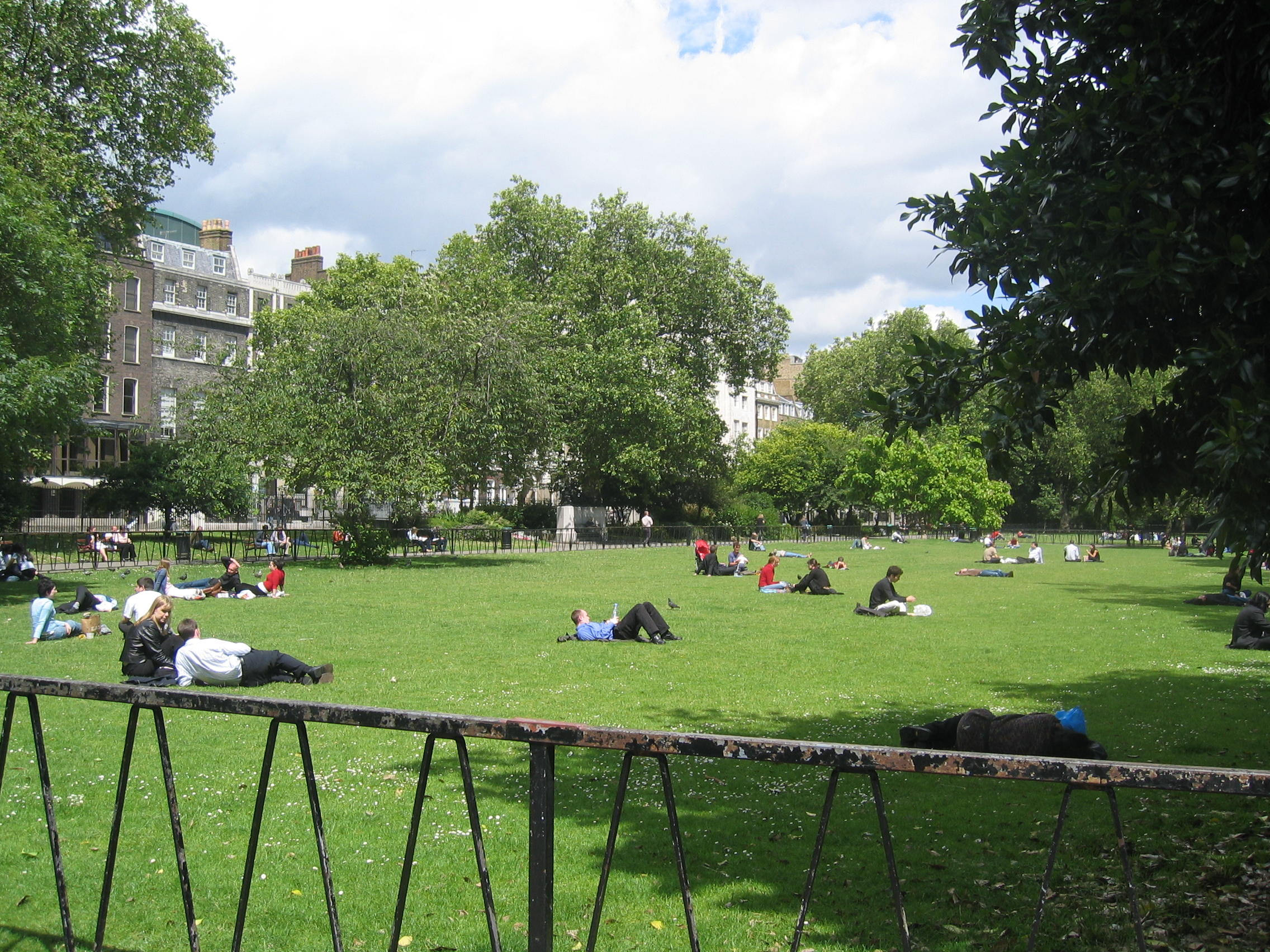 Lincoln's Inn Fields, Holborn, London, UK